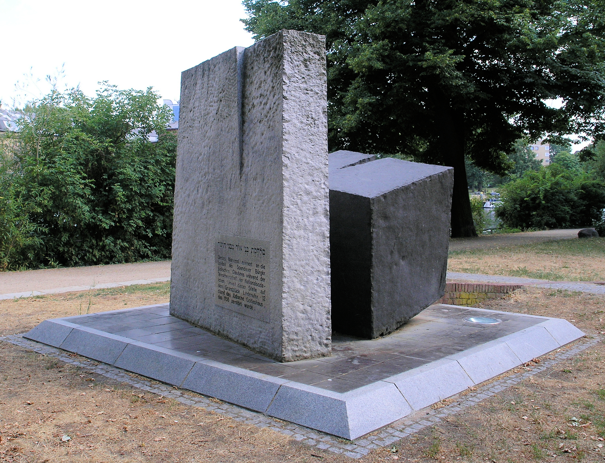 Memorial, Synagoge Spandau by Ruth Golan-Zareh und Kay Zareh 1989, Lindenufer 12, Berlin-Spandau, Germany